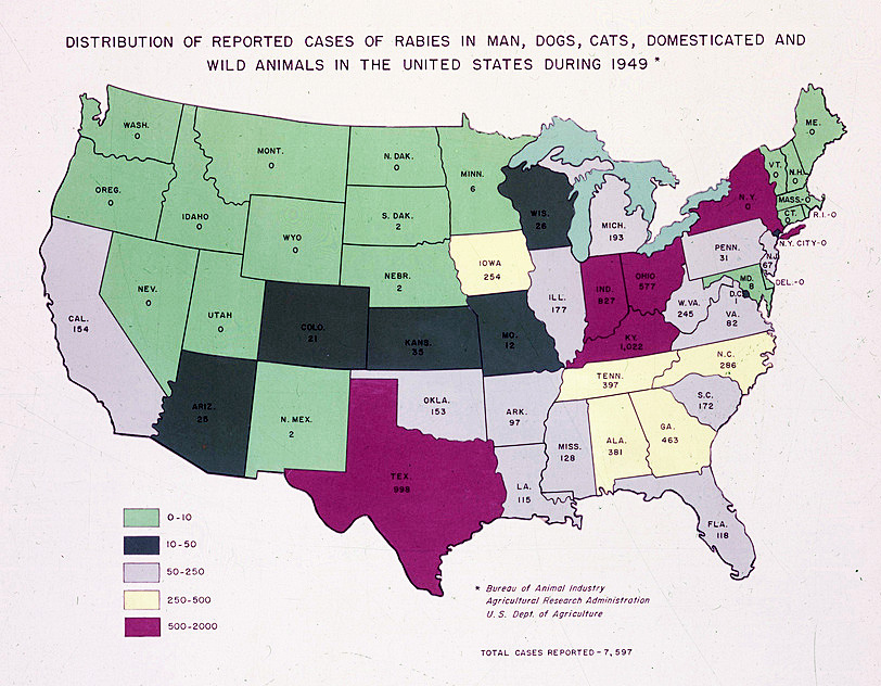 Rabies. Distribution of reported cases of rabies in man, dogs, cats, domesticated and wild animals in the united states during 1949. [Museum exhibits.] [Maps.] Exhibit 18-216 MIS 52-258-1